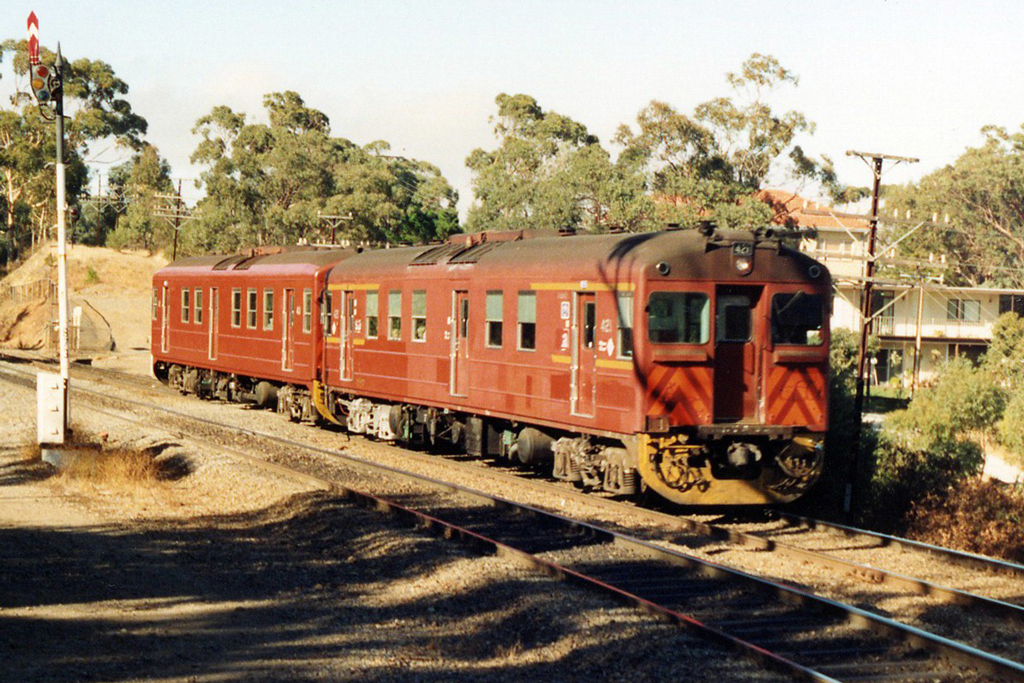 Two 400-class Redhen railcars working a Belair to Adelaide local train in 1990 at the Eden Hills railway station in Eden Hills, South Australia.